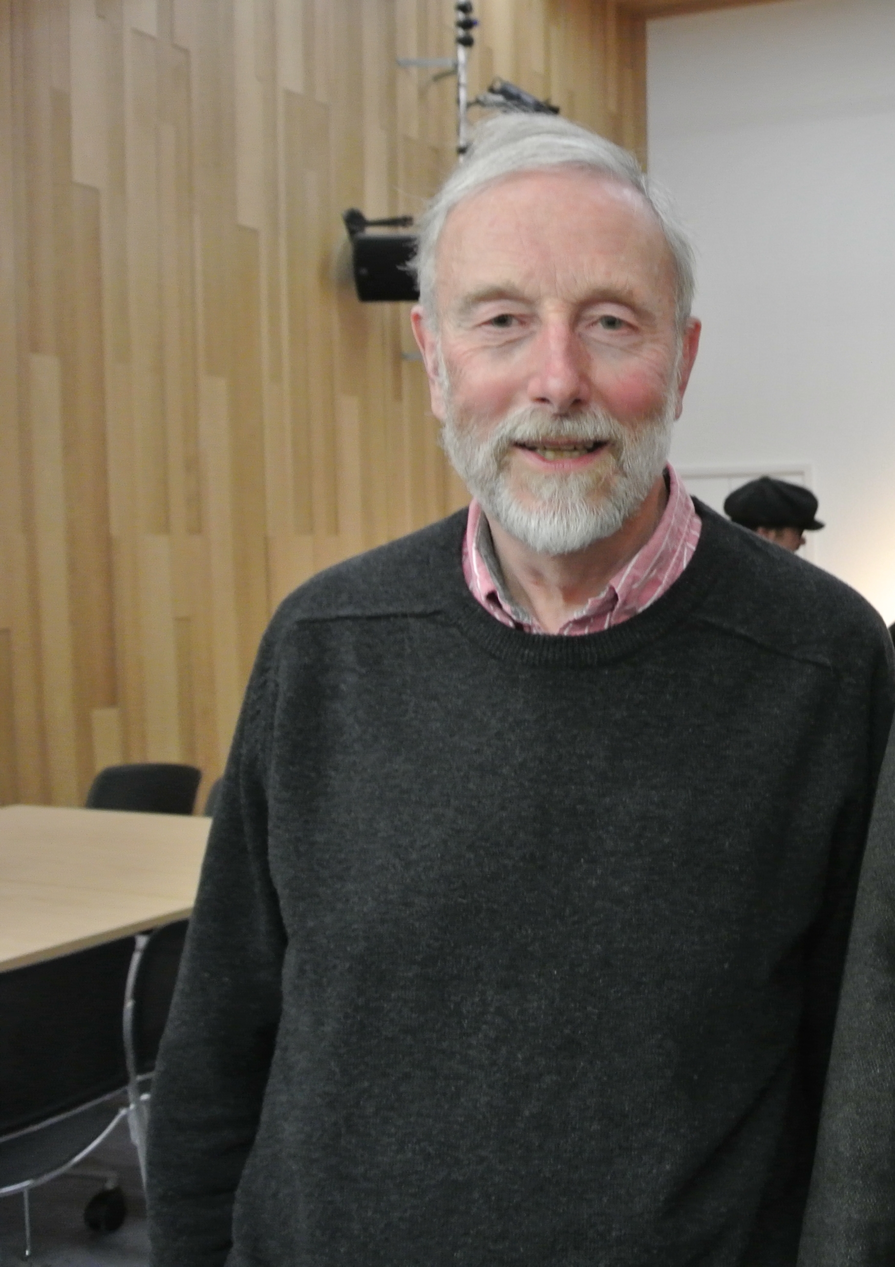 Scottish writer John Herdman November 2013